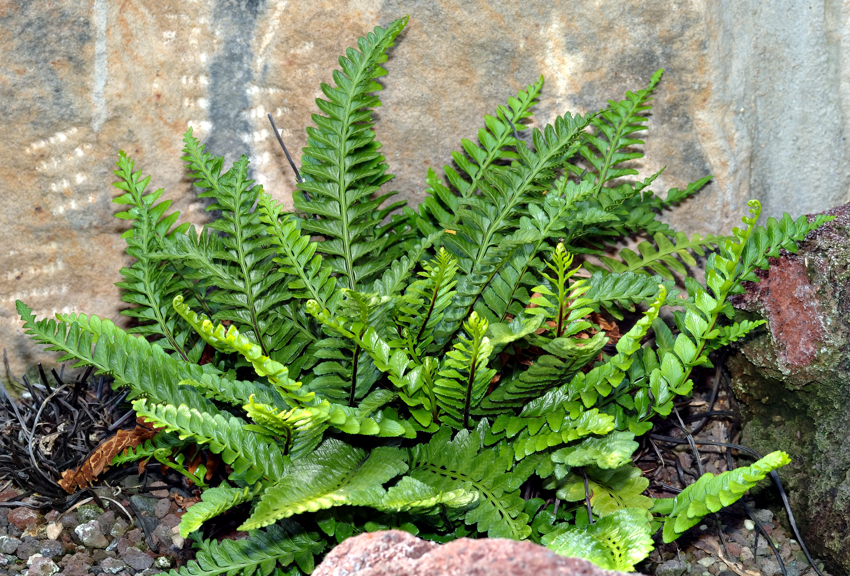 This image shows a few Sea Spleenworts (Asplenium marinum).